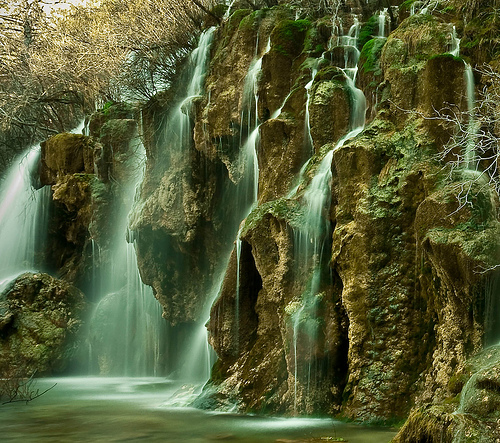 The river Cuervo waterfalls